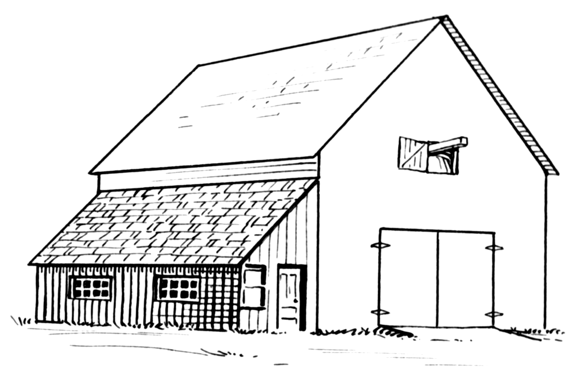 Lean-to, Barn